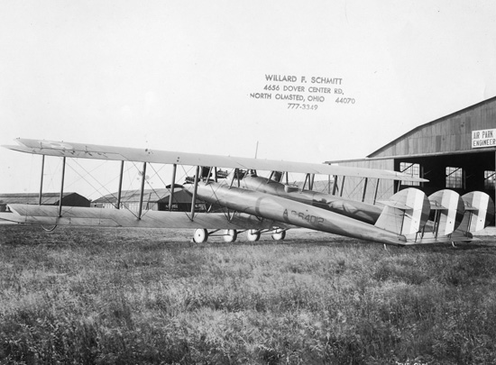 Catalog #: 00068694 Manufacturer: LWF Designation: H Official Nickname: Owl Notes: As 64012, 1919 Repository: San Diego Air and Space Museum Archive